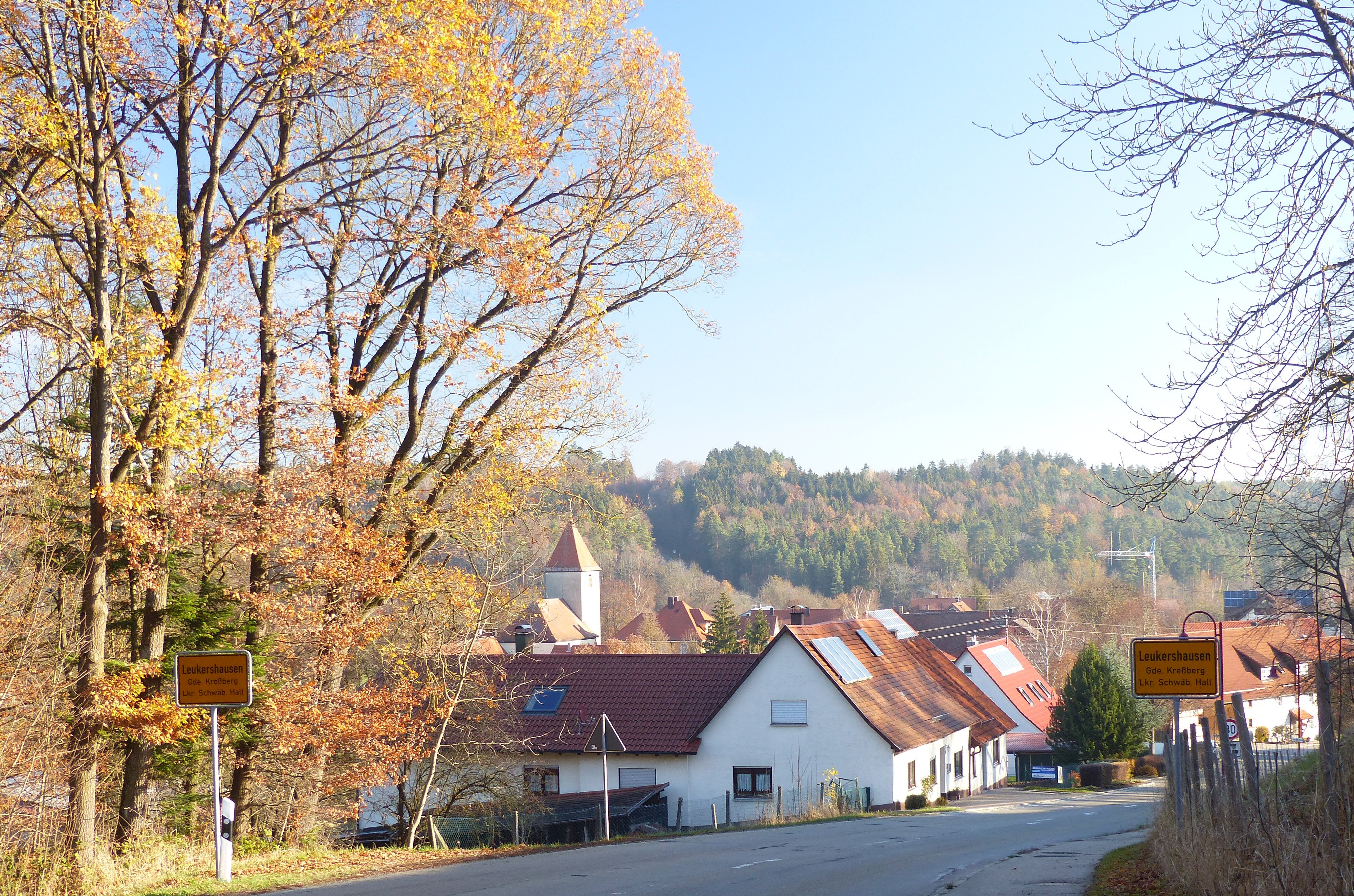 The village Leukershausen, part of the municipality of Kreßberg